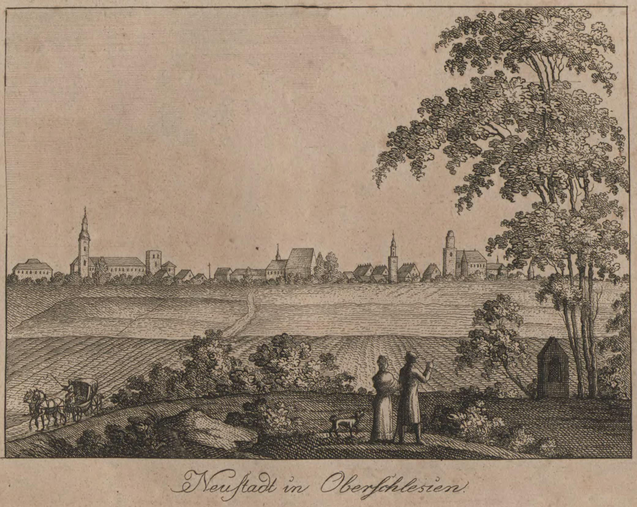 View of Neustadt in Upper Silesia